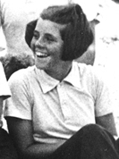 The Kennedy Family at Hyannis Port, 04 September 1931. L-R: Robert Kennedy, John F. Kennedy, Eunice Kennedy, Jean Kennedy (on lap of) Joseph P. Kennedy Sr., Rose Fitzgerald Kennedy (who was pregnant with Edward "Ted" Kennedy at time of this photo), Patricia Kennedy, Kathleen Kennedy, Joseph P. Kennedy Jr. (behind) Rosemary Kennedy. The dog in the foreground is Buddy.